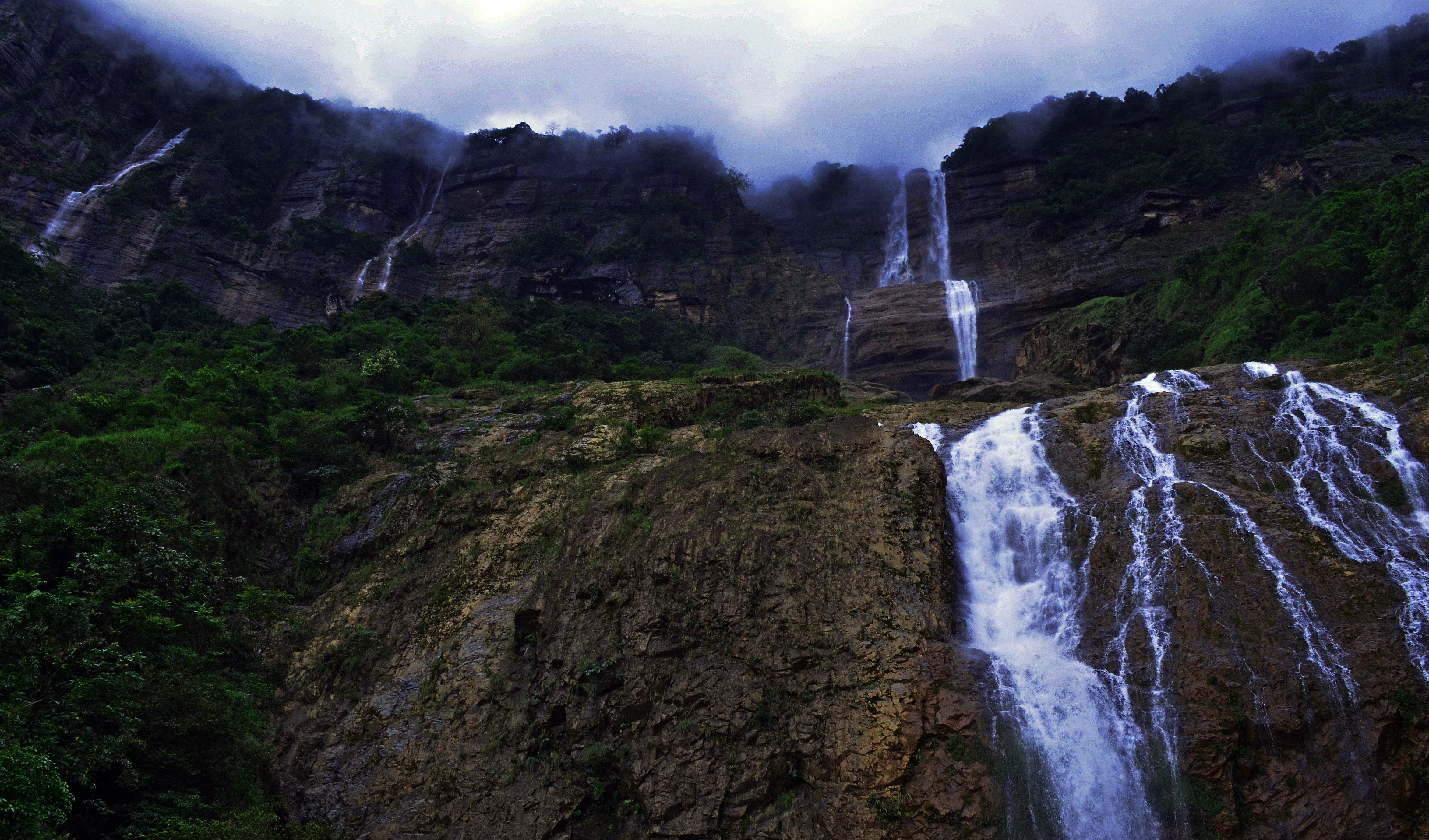 Kynrem falls is situated 12 km ahead of Shohra( Cherrapunjee) in Meghalaya. This is 7 th highest falls in India. Hight is 305 mtrs.